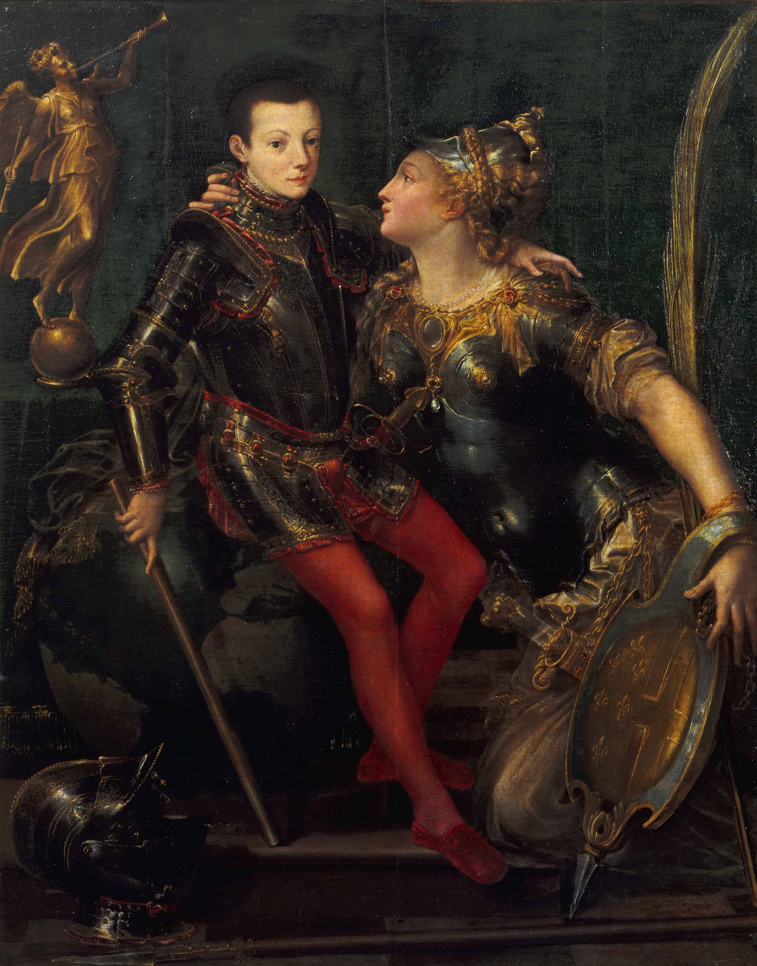 Alexander Farnese, Duke of Parma (1545-1592), son of Ottavio Farnese, Duke of Parma and Piacenza, and Margaret of Parma (daughter of Holy Roman Emperor Charles V. of Austria and Johanna Maria van der Gheynst), father of Ranuccio I Farnese, duke of Parma and Piacenza, from: Ritratto allegorico con Parma che abbraccia Alessandro Farnese